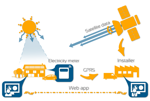 Photovoltaic monitoring with radiation measurement